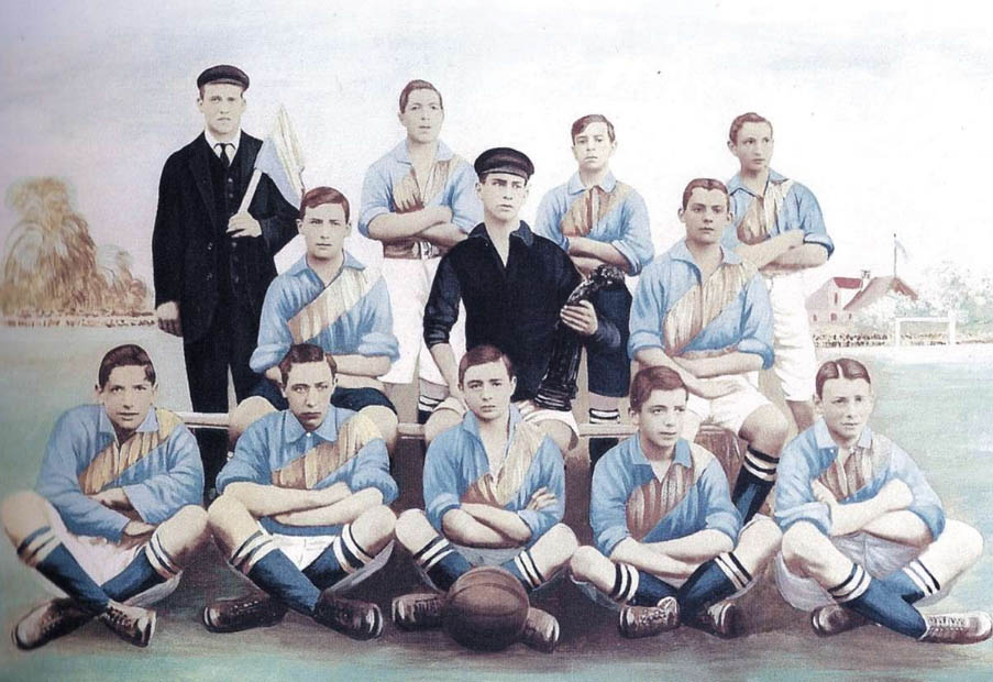 A Boca Juniors team of the 4th division. Many of those players would be later promted to the senior squad. F.l.t.r: (upper row): Juan P. Cardeccia (linesman), Alejandro Musso, Pascual Valente, Benito Priano. (middle): Juan Garibaldi, Enrique Farenga, Francisco Fuentes. (above): Antonio Verrina, Juan Unsworth, Ubaldo Massalomo, Miguel Valentini, Francisco Taggino.